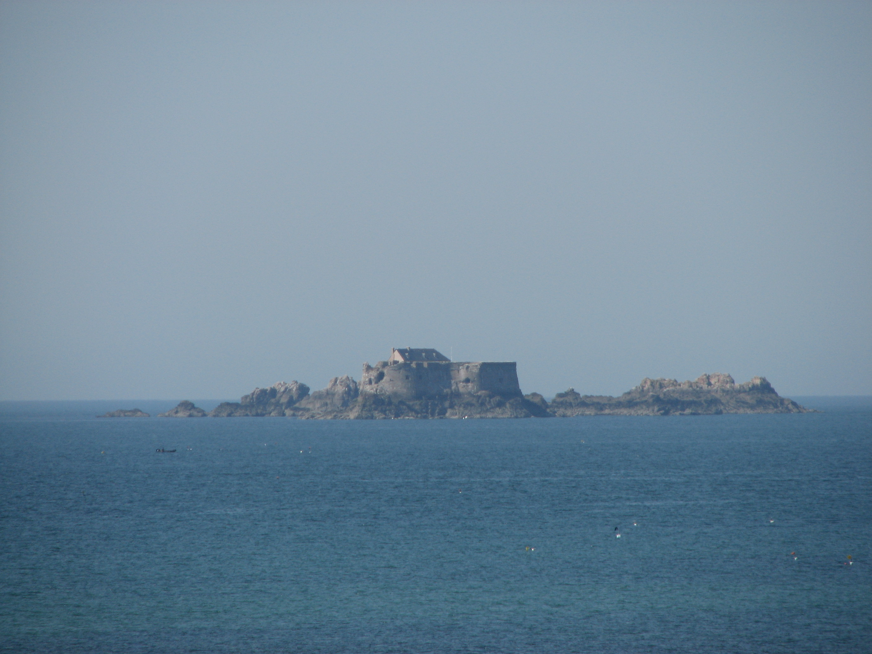 Fort de la Conchée see from the Sillon beach at low tide